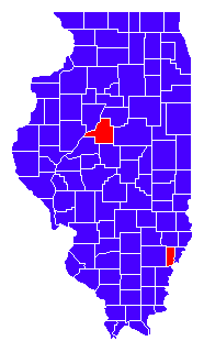 Results by county of the 2006 election for Attorney General of Illinois